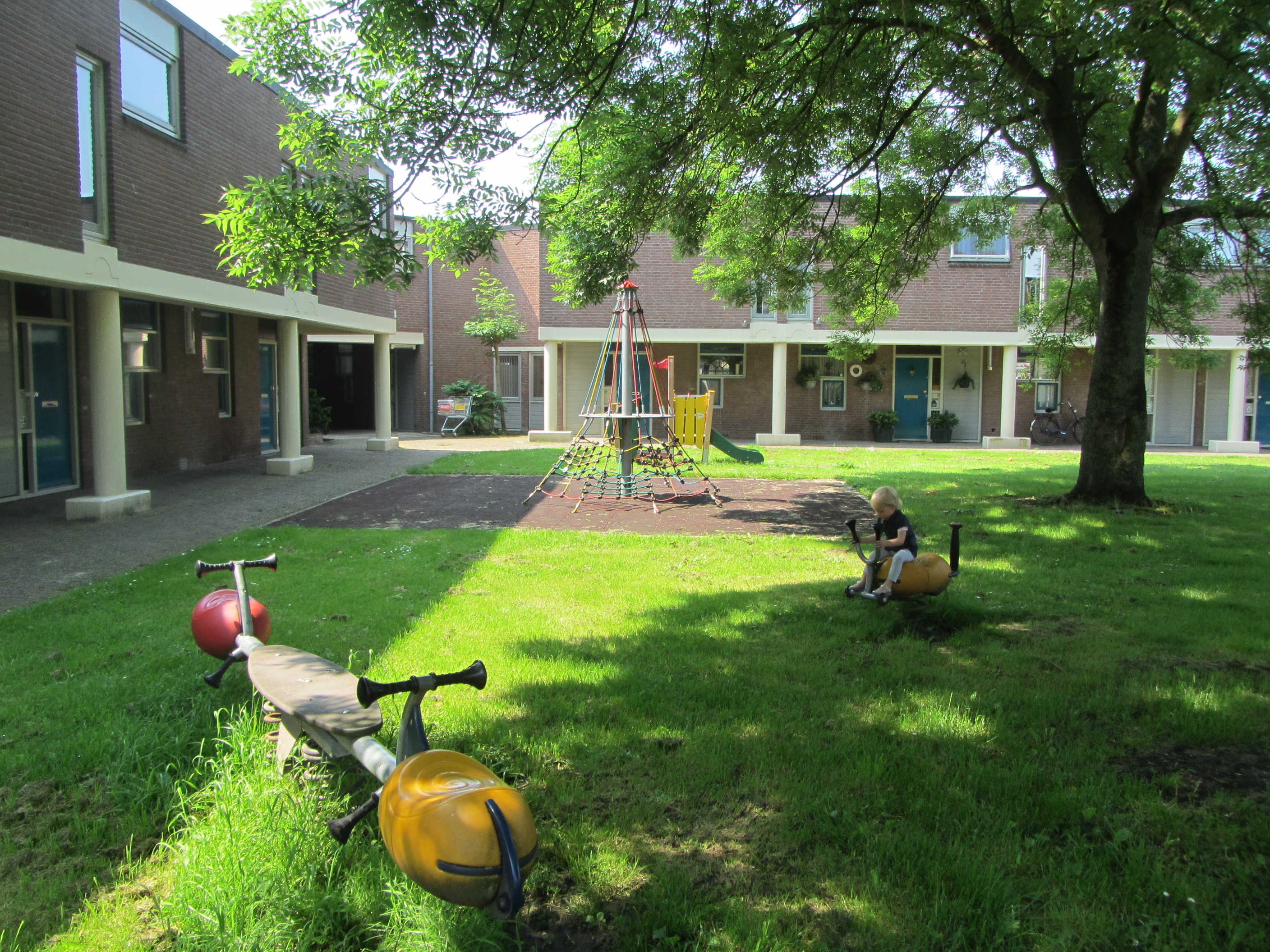 Playgound in Berkel en Rodenrijs